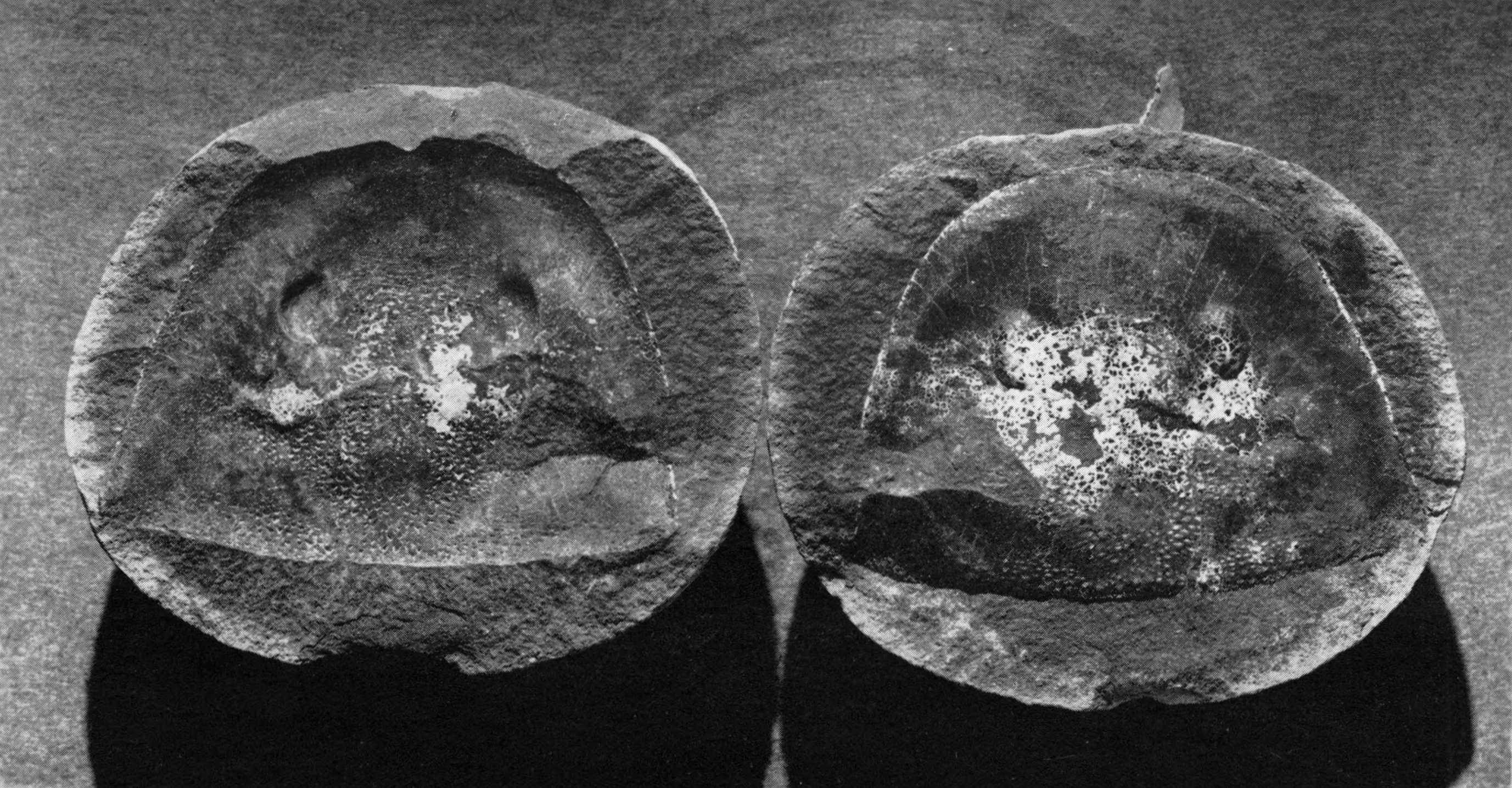 Carapace of Adelophthalmus mazonensis (Meek and Worthen) from the Herdina collection (H-6); × 1.3.